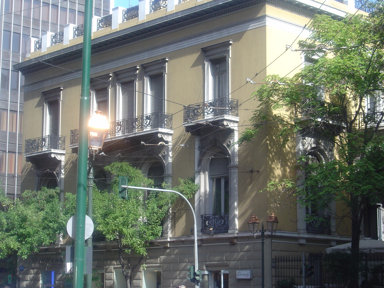 Deligiorgis mansion in Athens